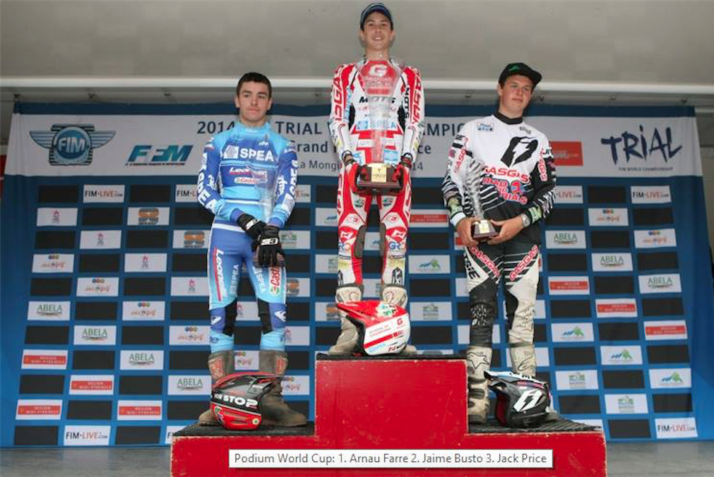 World Cup Podium, 2014 season, La Mongie (France). 1-Arnau Farré (middle), 2-Jaime Busto (left), 3-Jack Price (right)